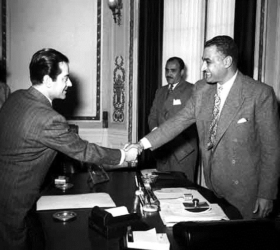 Egyptian-Syrian singer Farid al-Atrash is greeted by Egyptian President Gamal Abdel Nasser in Cairo